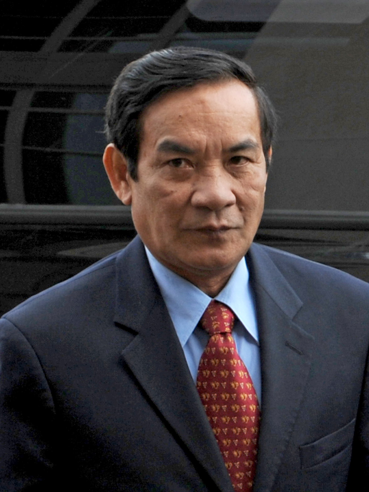 Lê Công Phụng, Ambassador of Vietnam to the United Sates of America.